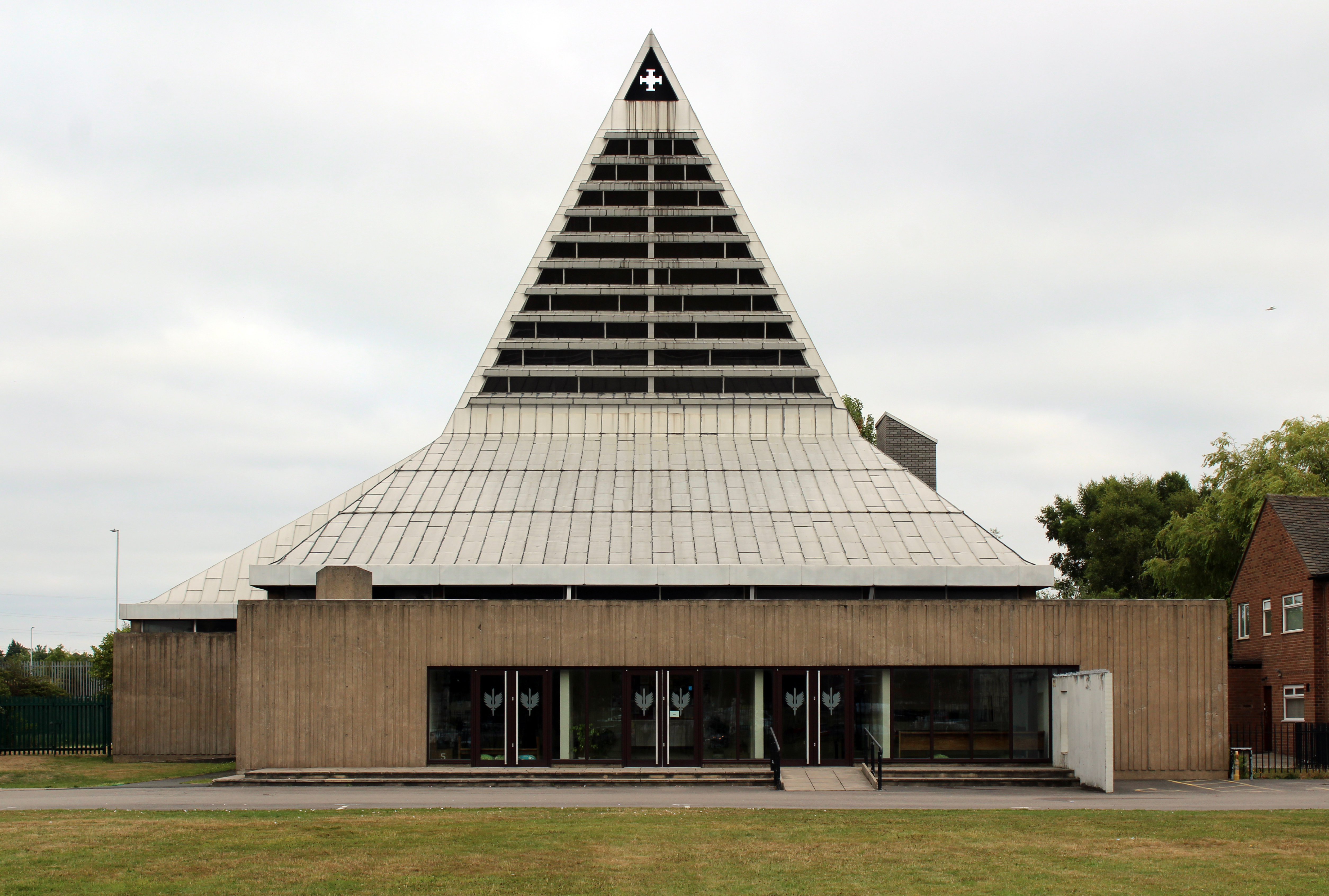 Grade II listed 1960s Roman Catholic church on the Woodchurch estate. Front elevation from New Hey Road.